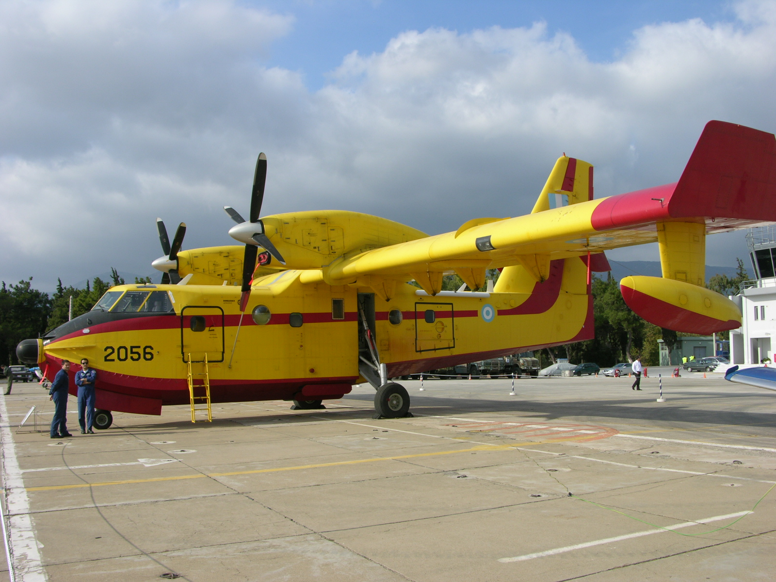 Many of the countries surrounding the Mediterranean operate variants of the massive Canadair water-bomber including France, Spain, Italy and Greece. This is Greece's most recent acquisition of the type and was delivered via Manchester in the UK in June 2002.